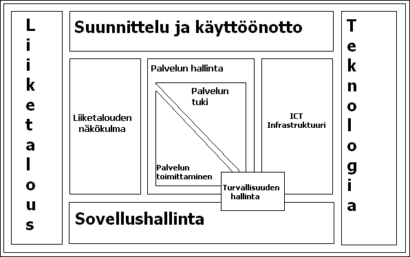 Allmost exact copy of english "Image:ITIL_framework.PNG" picture, but with finnish text.